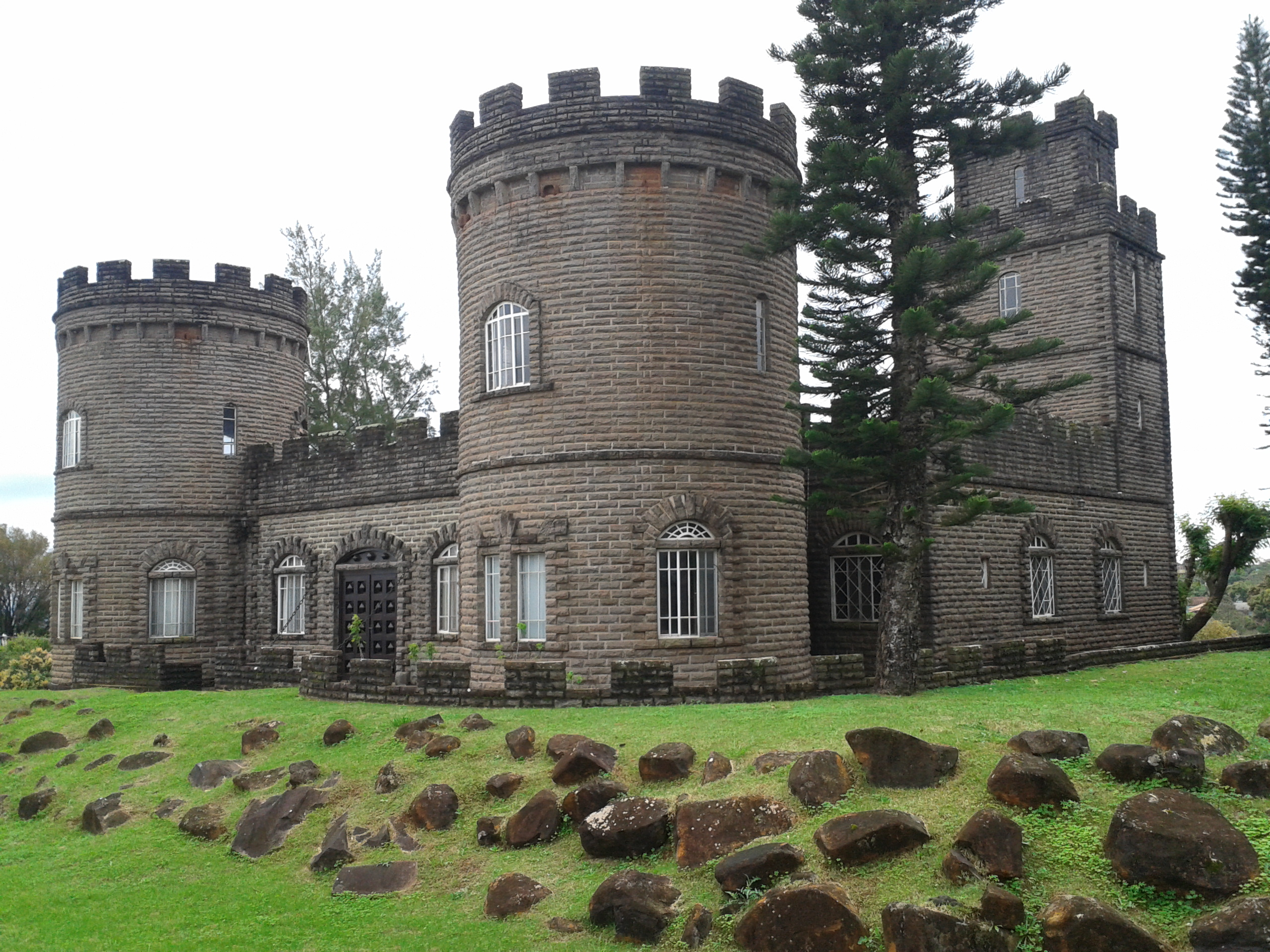 Castle in Crissiumal, Brazil